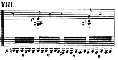 Eighth variation of Le festin d'Ésope, composed by by Charles-Valentin Alkan